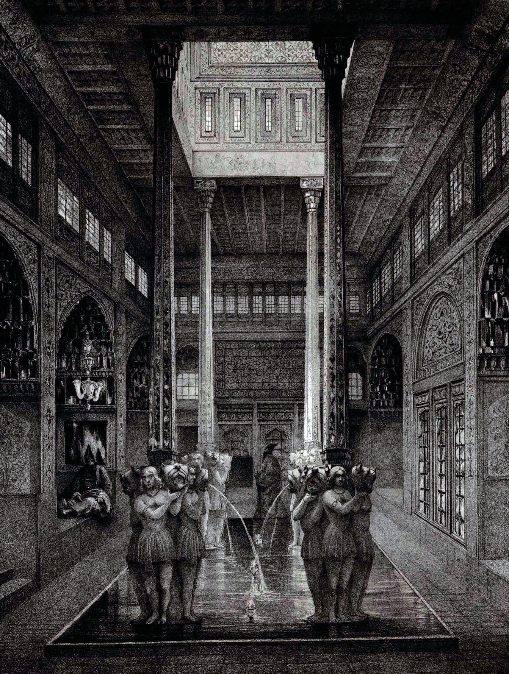 Room Khalvat [Private] - Serpouchideh [Roofed], [Char Bagh] Palace in Isfahan